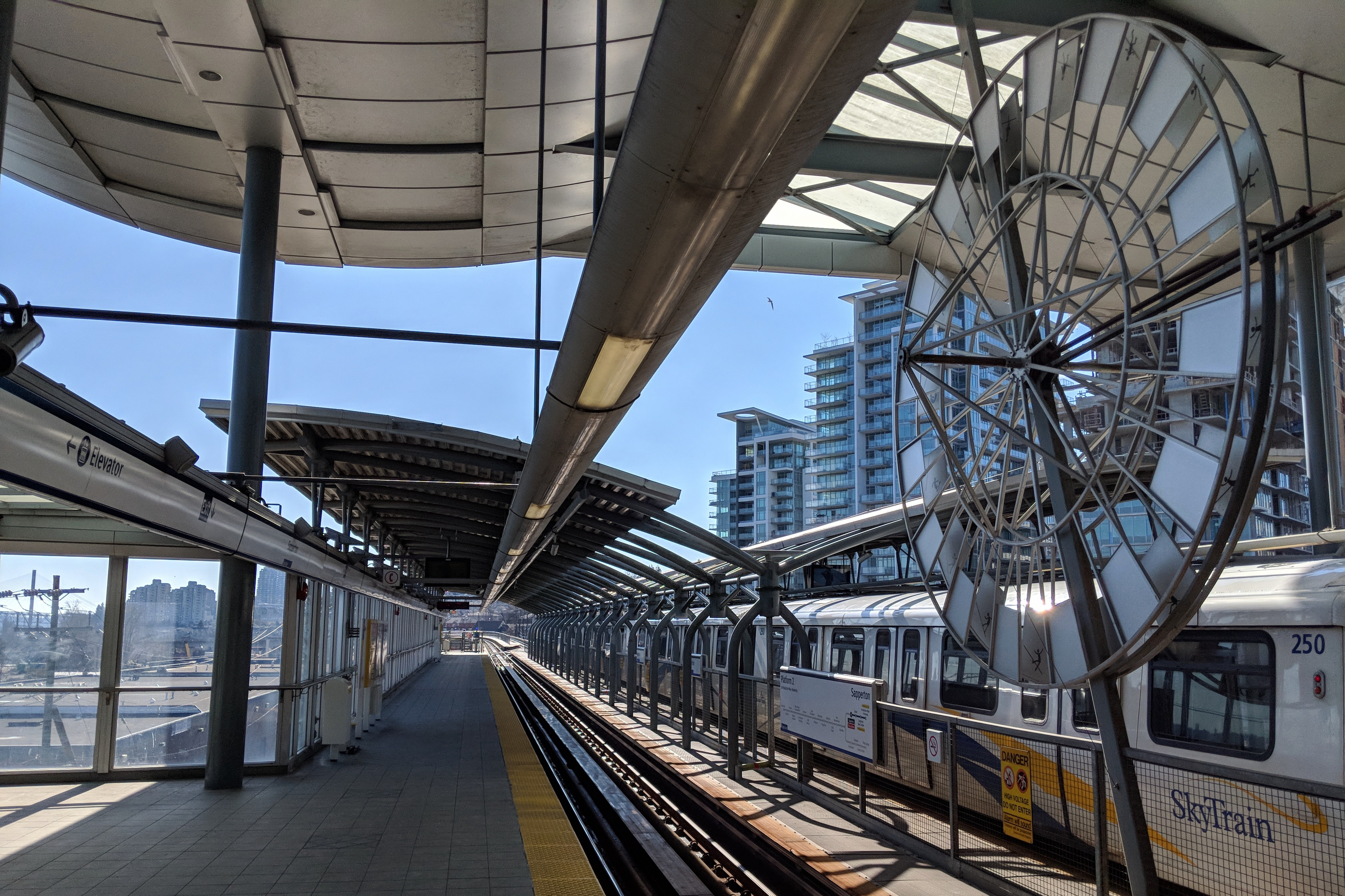 Platform level at Sapperton station. A westbound train with service to Waterfront station can be seen at Platform 1.